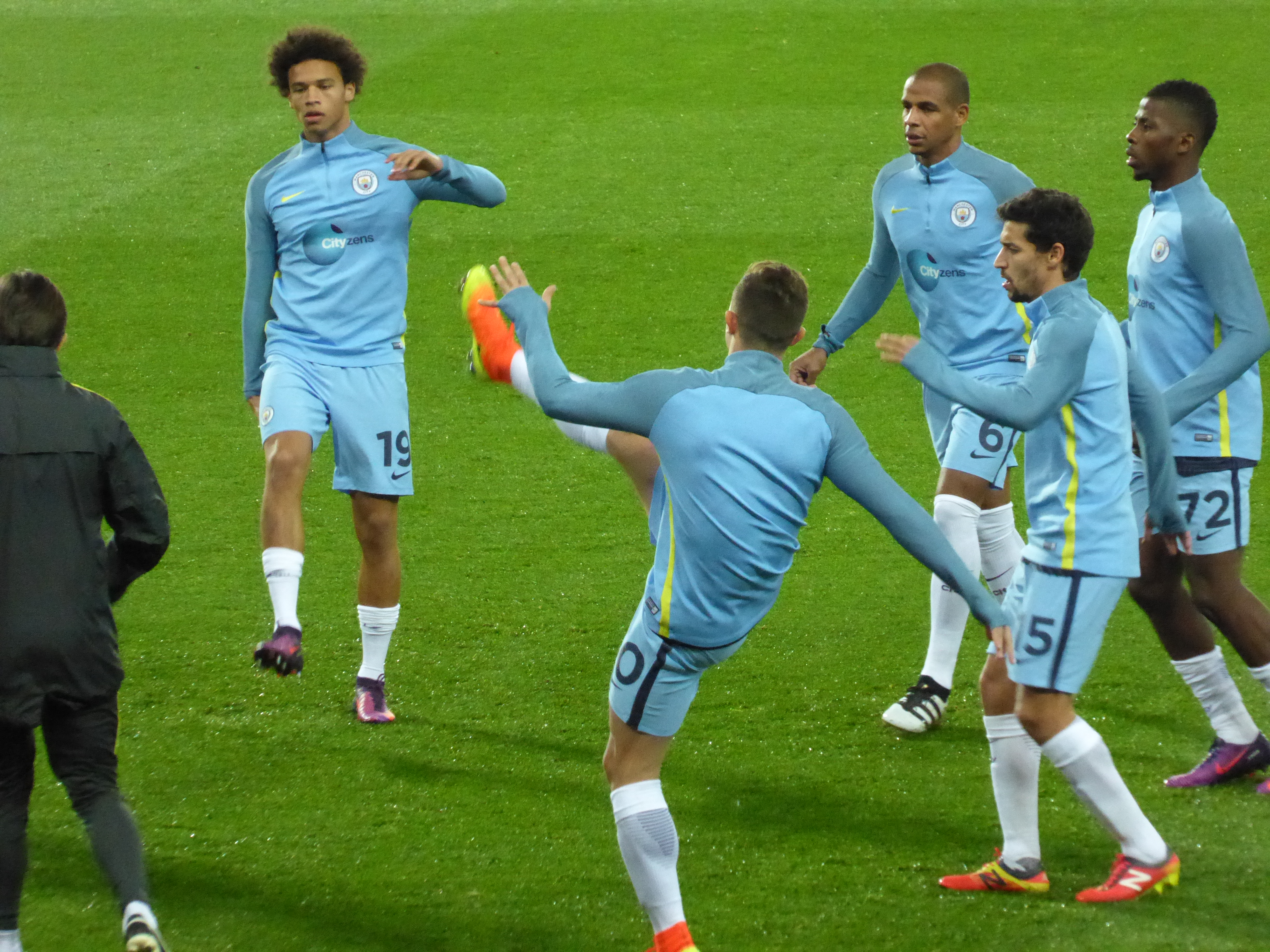 Manchester United v Manchester City (1-0), EFL Cup, Old Trafford, Manchester, Greater Manchester, England, October 2016